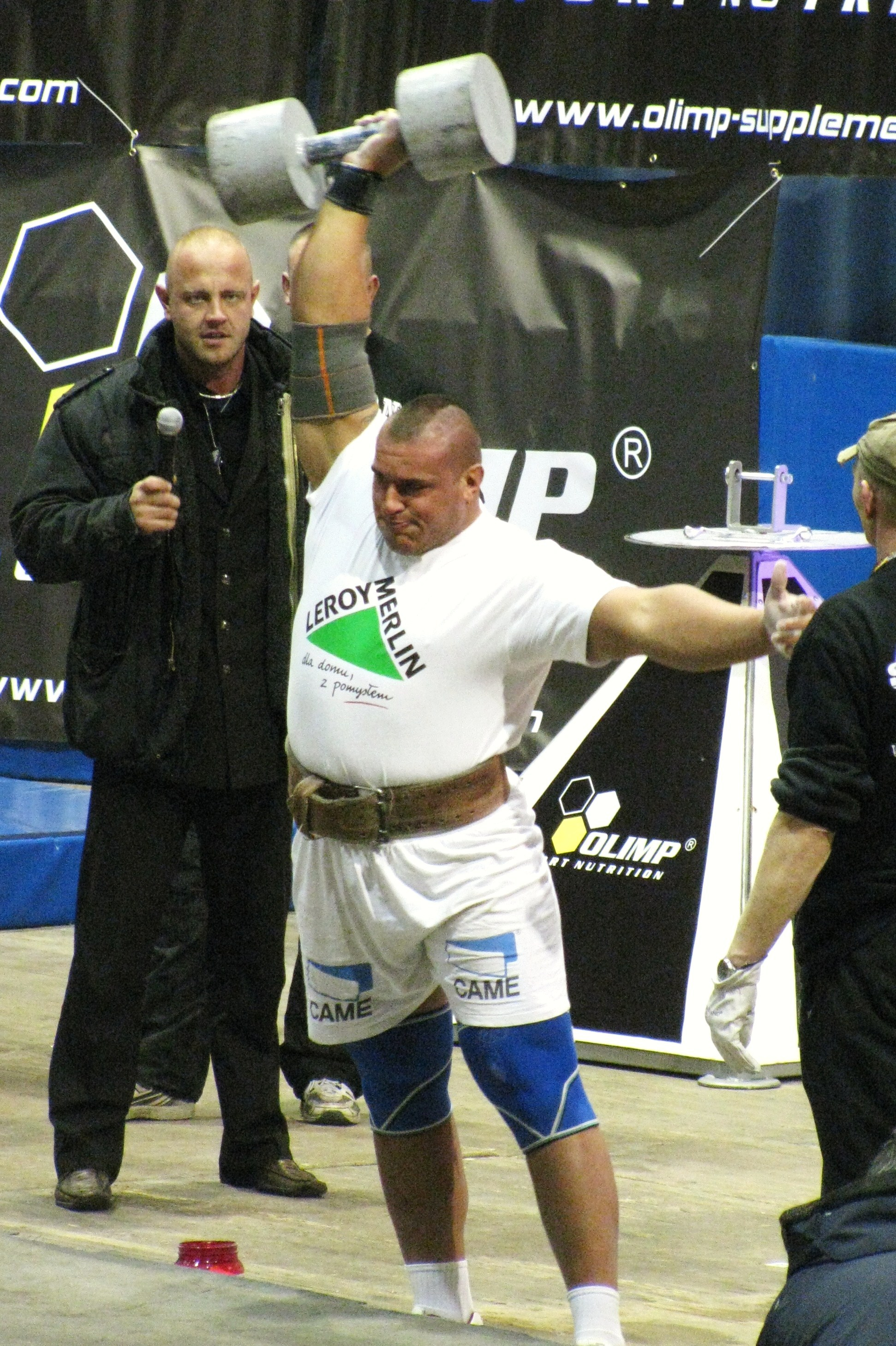 Mateusz Baron - a strength athlete from Poland at the Dumbbell Lift.